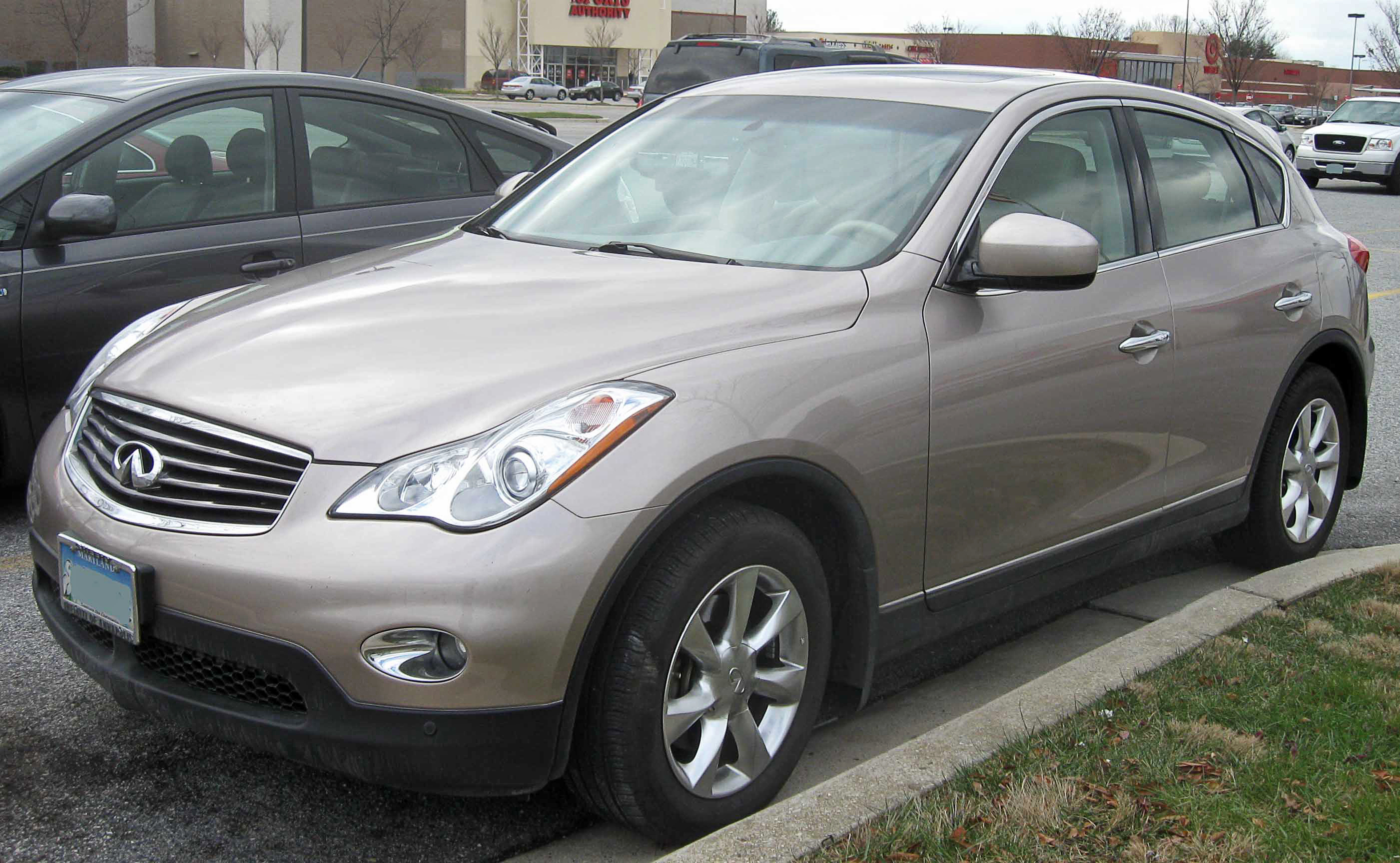 2009 Infiniti EX35 photographed in Laurel, Maryland, USA.